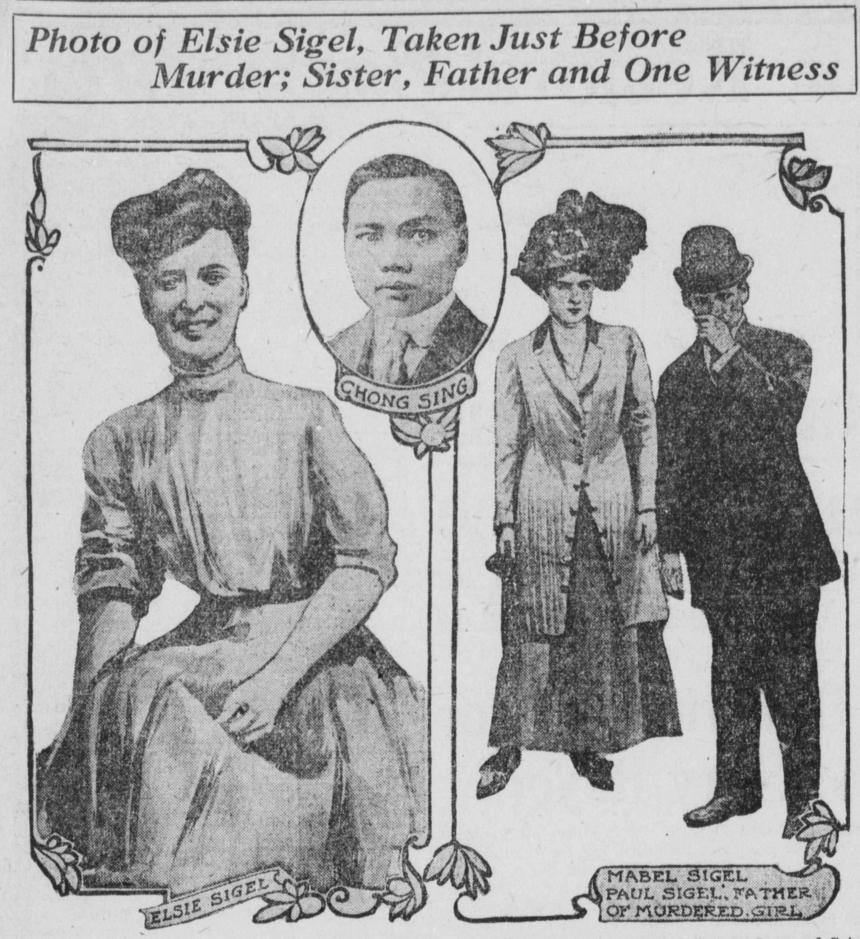 L-R: Photograph of Elsie Sigel, taken just before her June 1909 murder; photograph of Chong Sing, witness to her murder; photographs of Mabel (sister) and Paul Sigel (father).